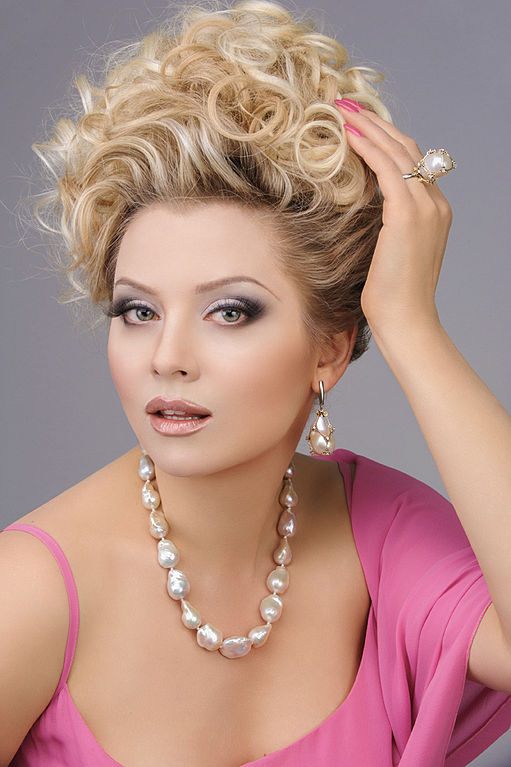 Elena Lenina